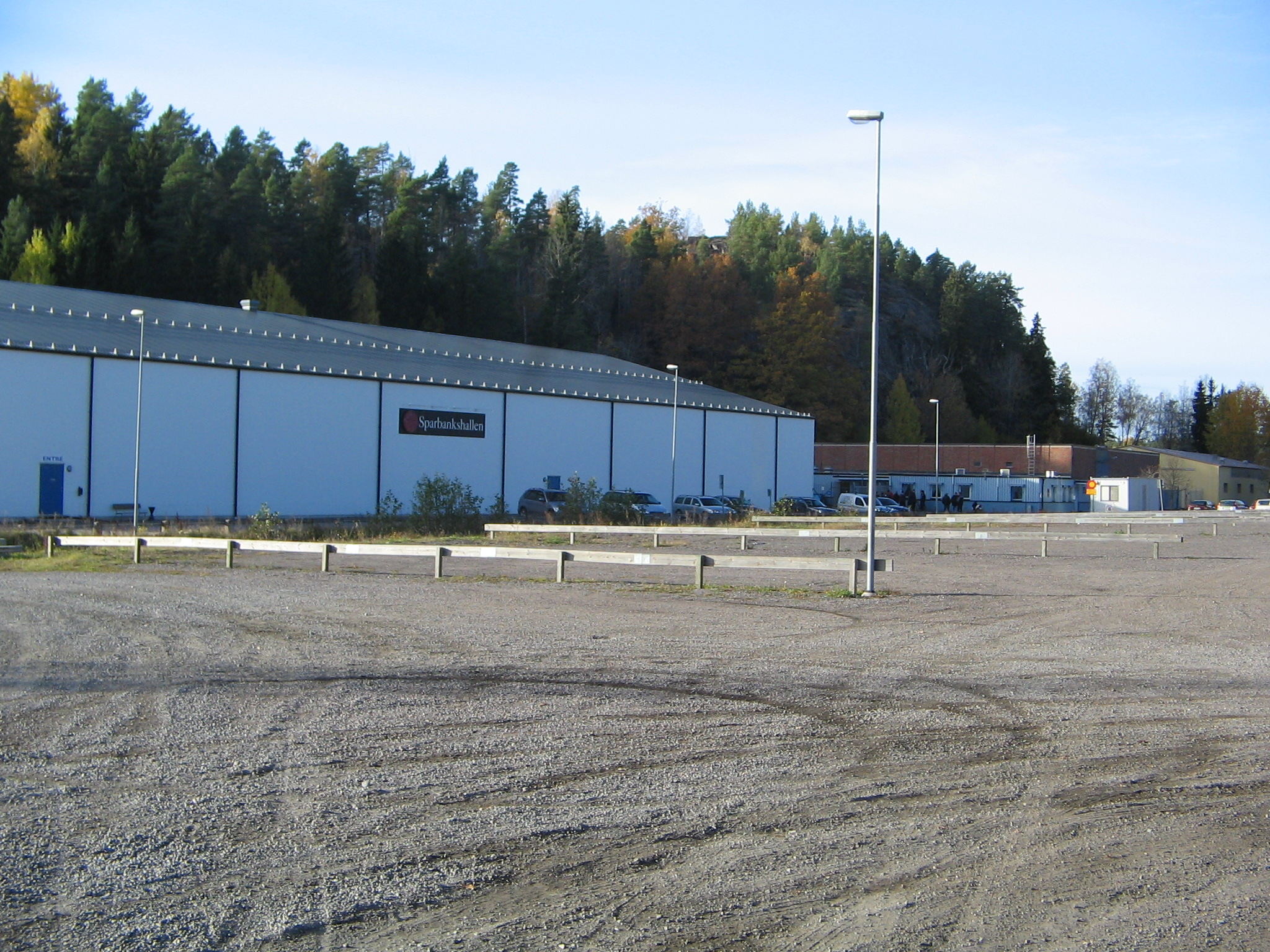 A picture of WIF hockey's Sparbankshallen.